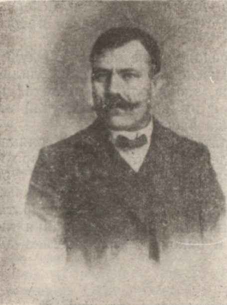 portrait of Mihail Chekov/ not to be mistaken with Mihail Chakov/